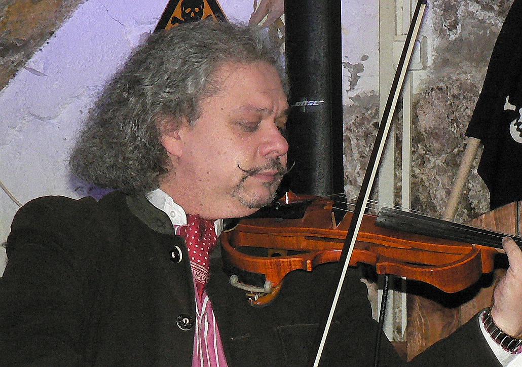 Roby Lakatos (2012)